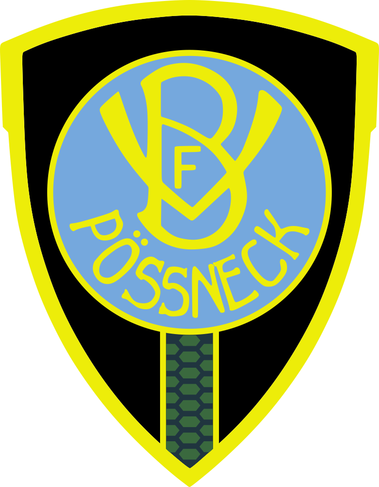 Historic logo of german football club VFB Pößneck (1909-1945)